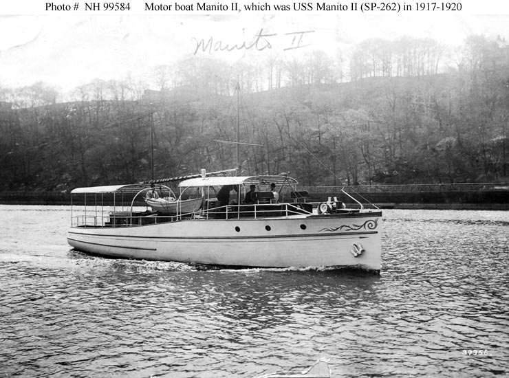 Motorboat Manito II prior to her United States Navy service as patrol vessel USS Manito II (SP-262)